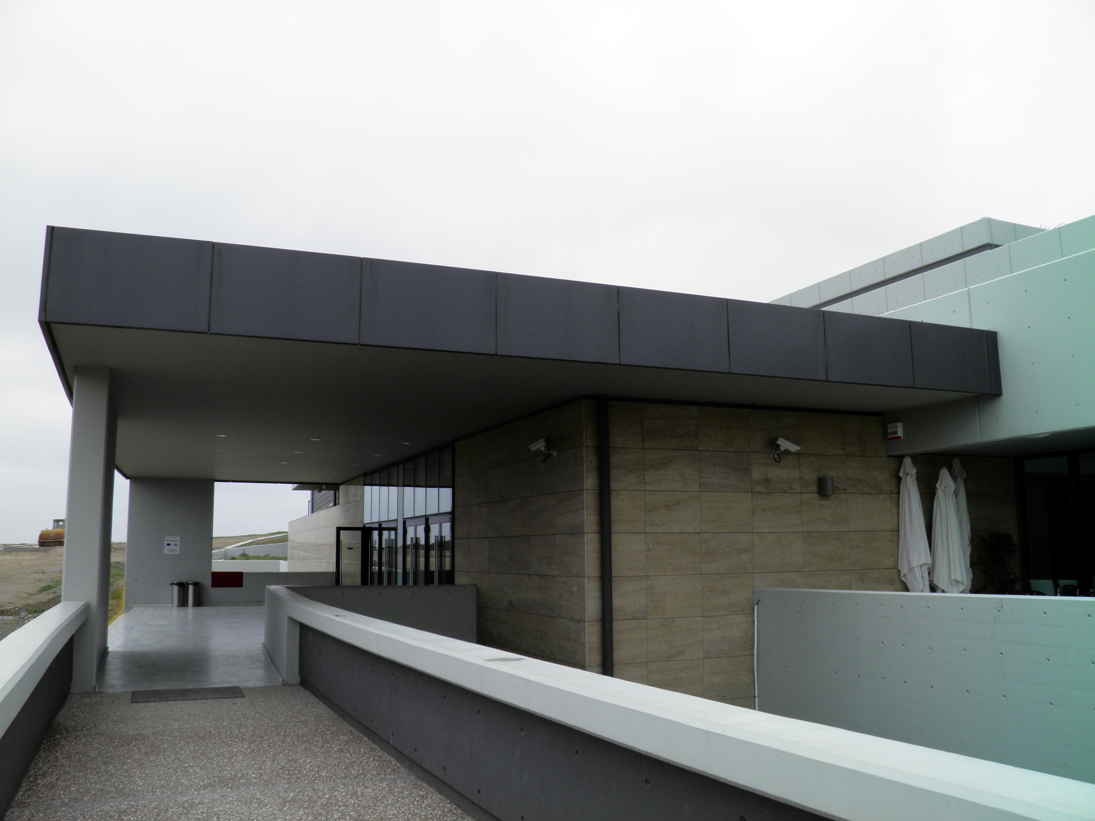 The entry to the new Archaeological Museum, Pella